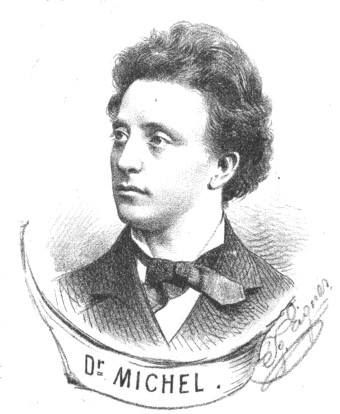 Portrait of Karl Michel (1843-1930), German physician, actor and writer.